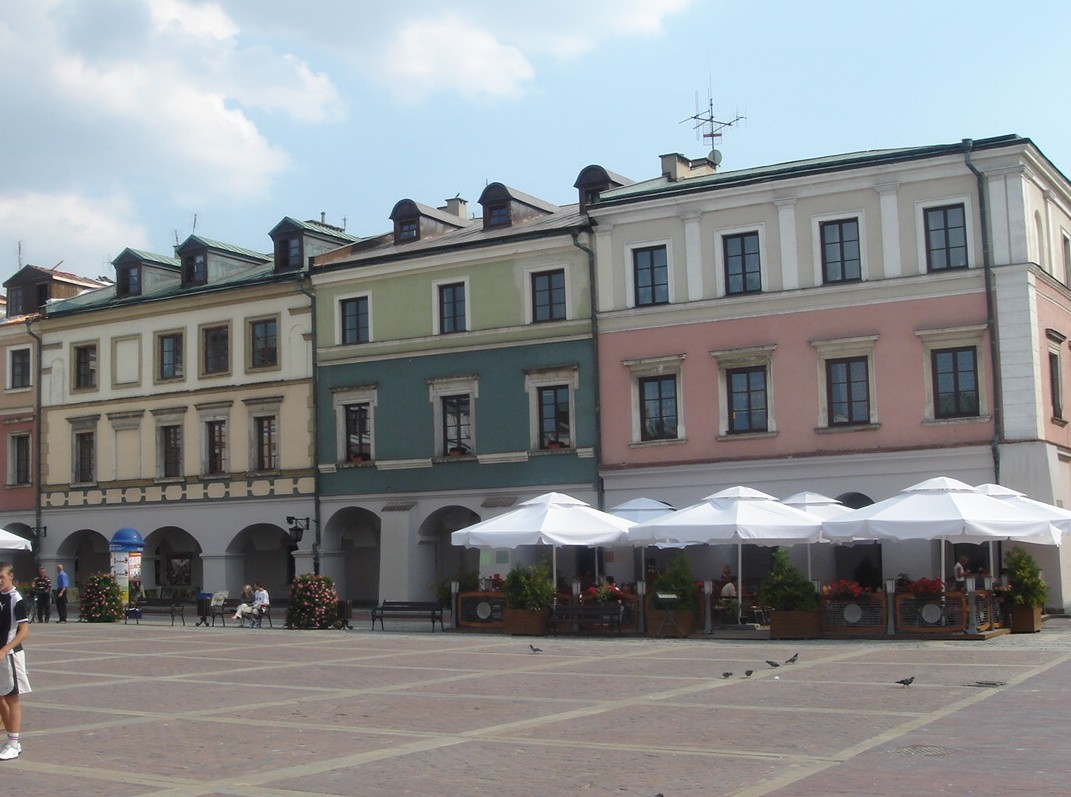 Great Market in Zamość, southern part - Staszica St.